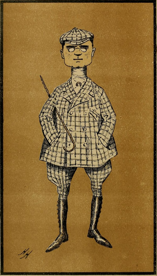 A caricature of Mr. C. R. Burkill, entitled "Chuck", by H. H.